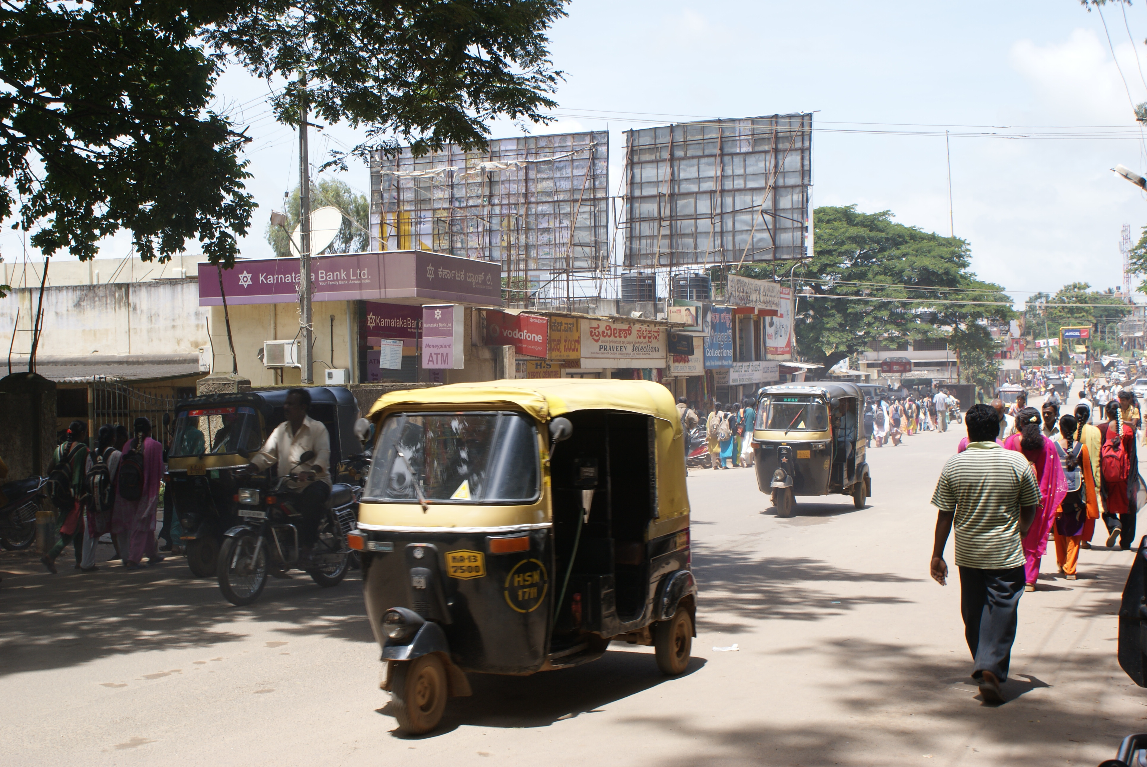 Street in the town of Hassan, Karnataka, India